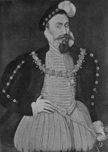 Henry Grey, Duke of Suffolk, by Johannes Corvus